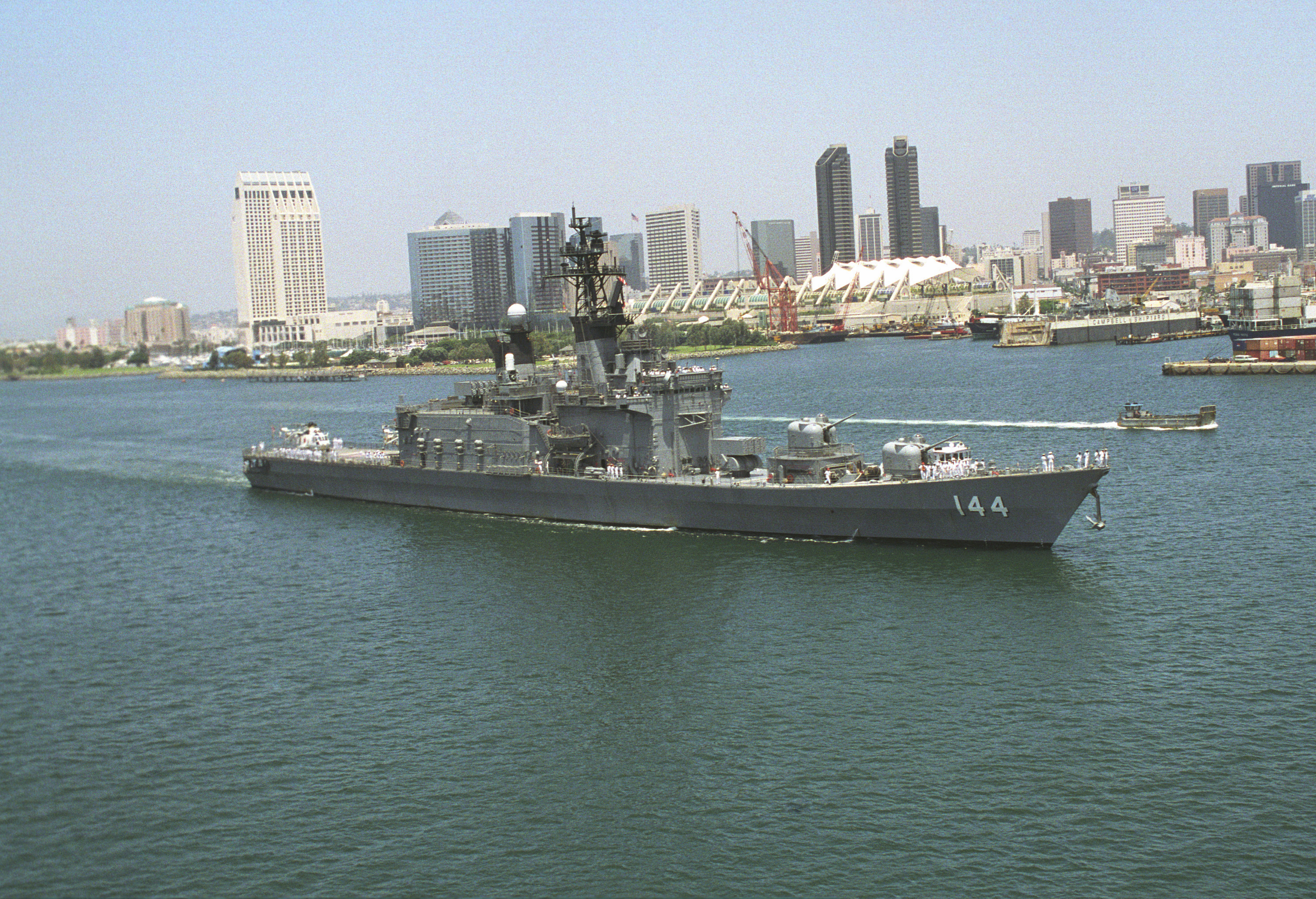 A starboard view of the Japanese Maritime Self Defense Force (JMSDF) 2 Shirane Class Helicopter Destroyer KURAMA (DDH 144), as it sails past the Embarcadero Marina Park and the San Diego Convention Center is in the background. On the stern of the ship sits a pair of Mitsubishi HSS-2B Sea Kings. The ship is participating in RIMPAC 92 (Rim of the Pacific Exercise 1992).